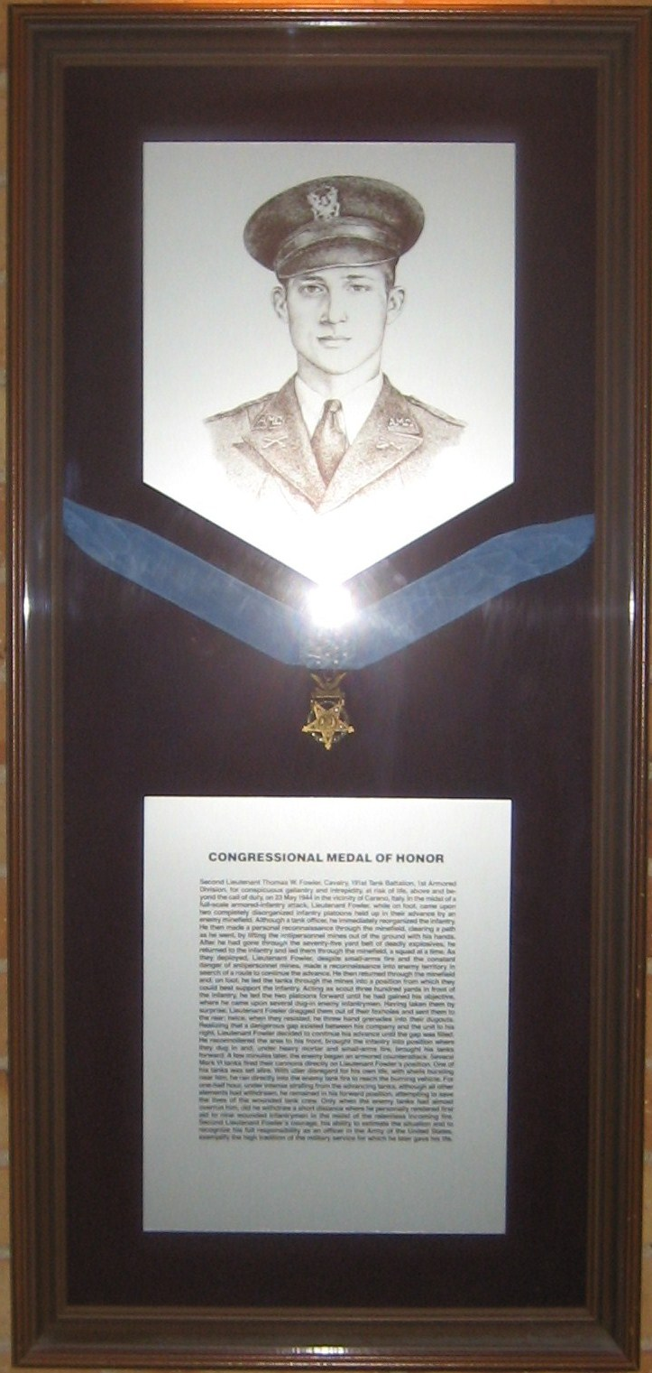 A picture of Thomas W. Fowler, a specimen Medal of Honor and his citation on display at the Memorial Student Center at Texas A&M University